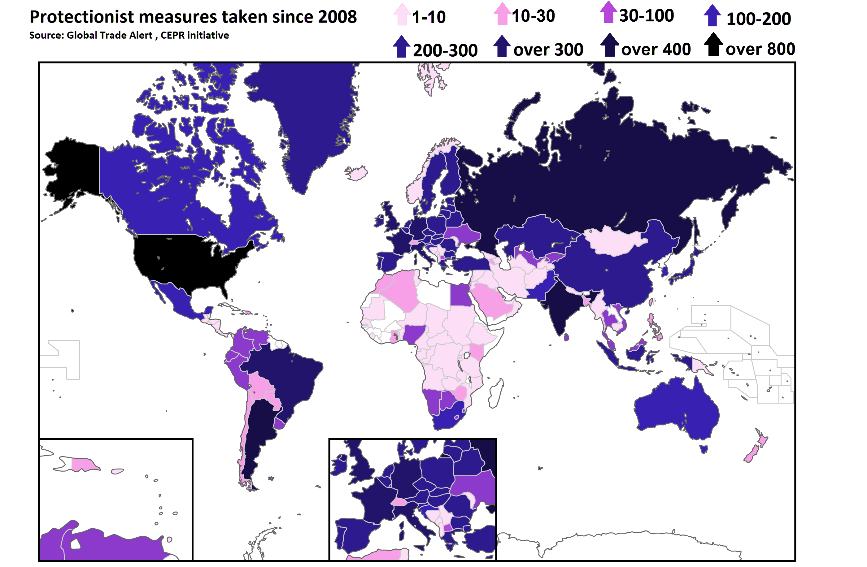 Protectionist measures taken 2008–2013 according to Global Trade Alert. data is based on protectionist measures taken by the countries from 2008 to 2013. Link above is the source